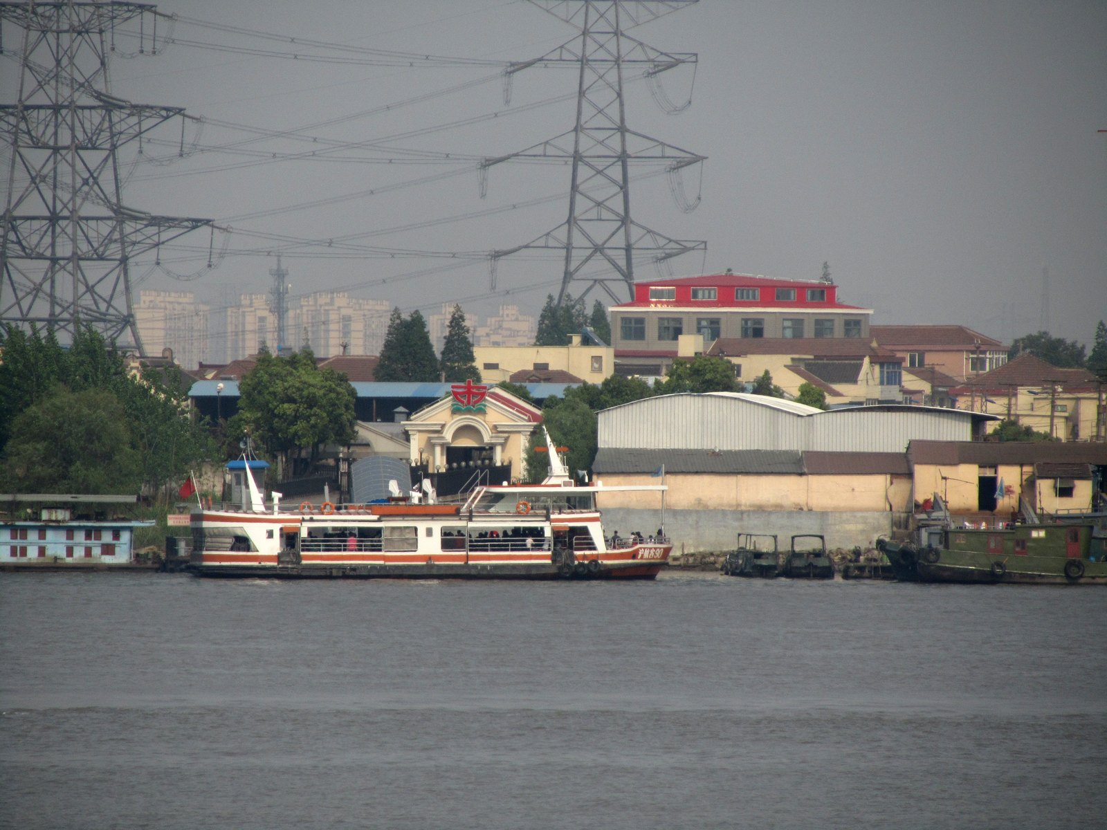 Sanchagang Ferry